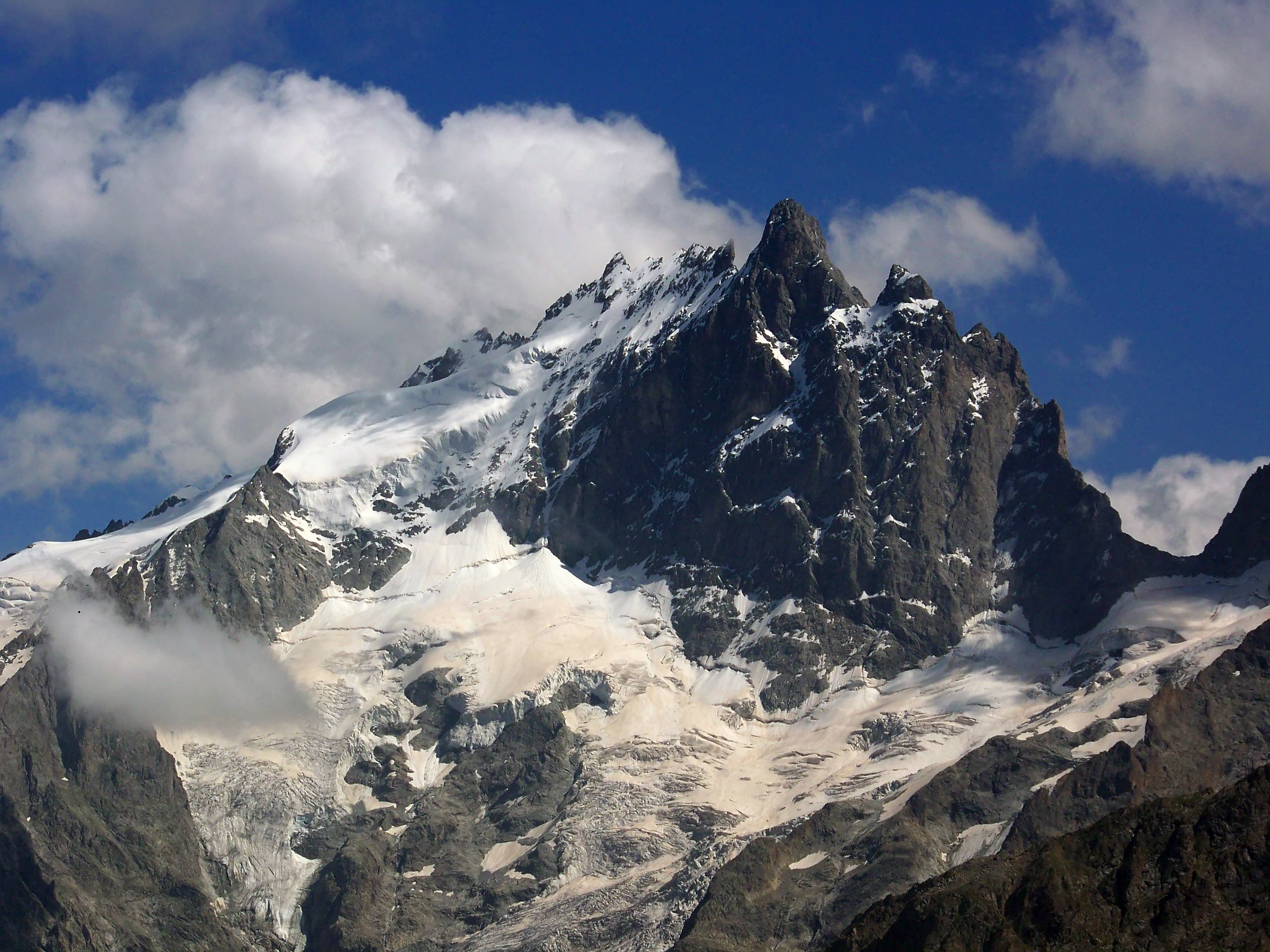 La Meije moutain seen from the Emparis plateau (French Alps).